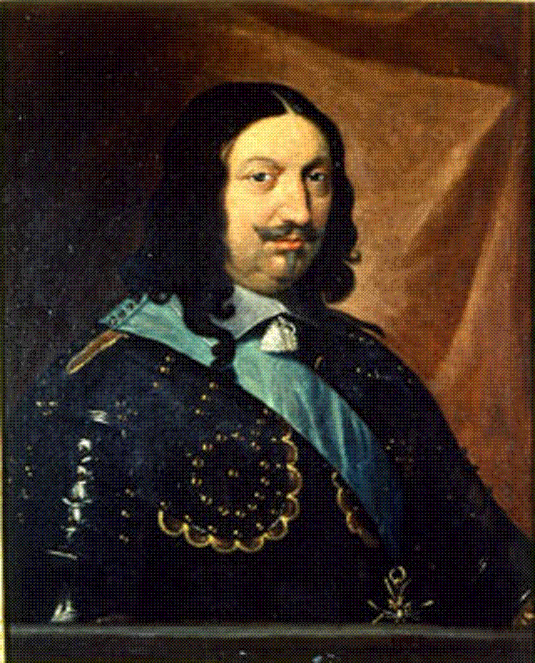 Prince Honore II of Monaco, 1598-1662 by Philippe de Champaigne. Photograph of original painting in the Royal Palace at Monaco. This work of art was painted before 1662. Therefore in the public domain by virtue of age